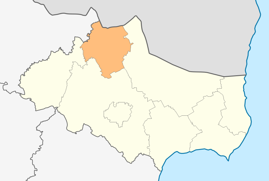 Map of Krushari municipality, Dobrich Province